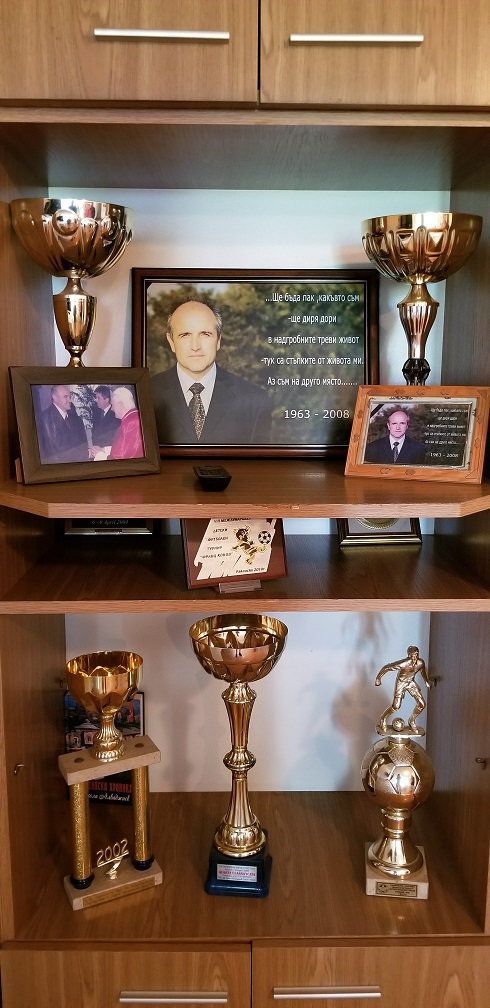 Sport trophies in Rakovski